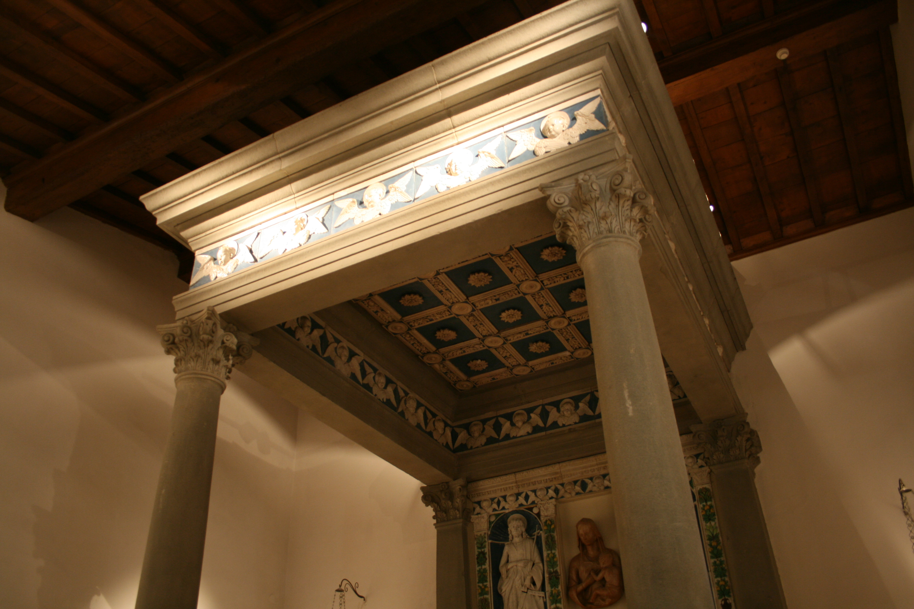 Detail of the altar of the Holy Milk formerly in Collegiate Church of San Lorenzo in Montevarchi. By Andrea della Robbia